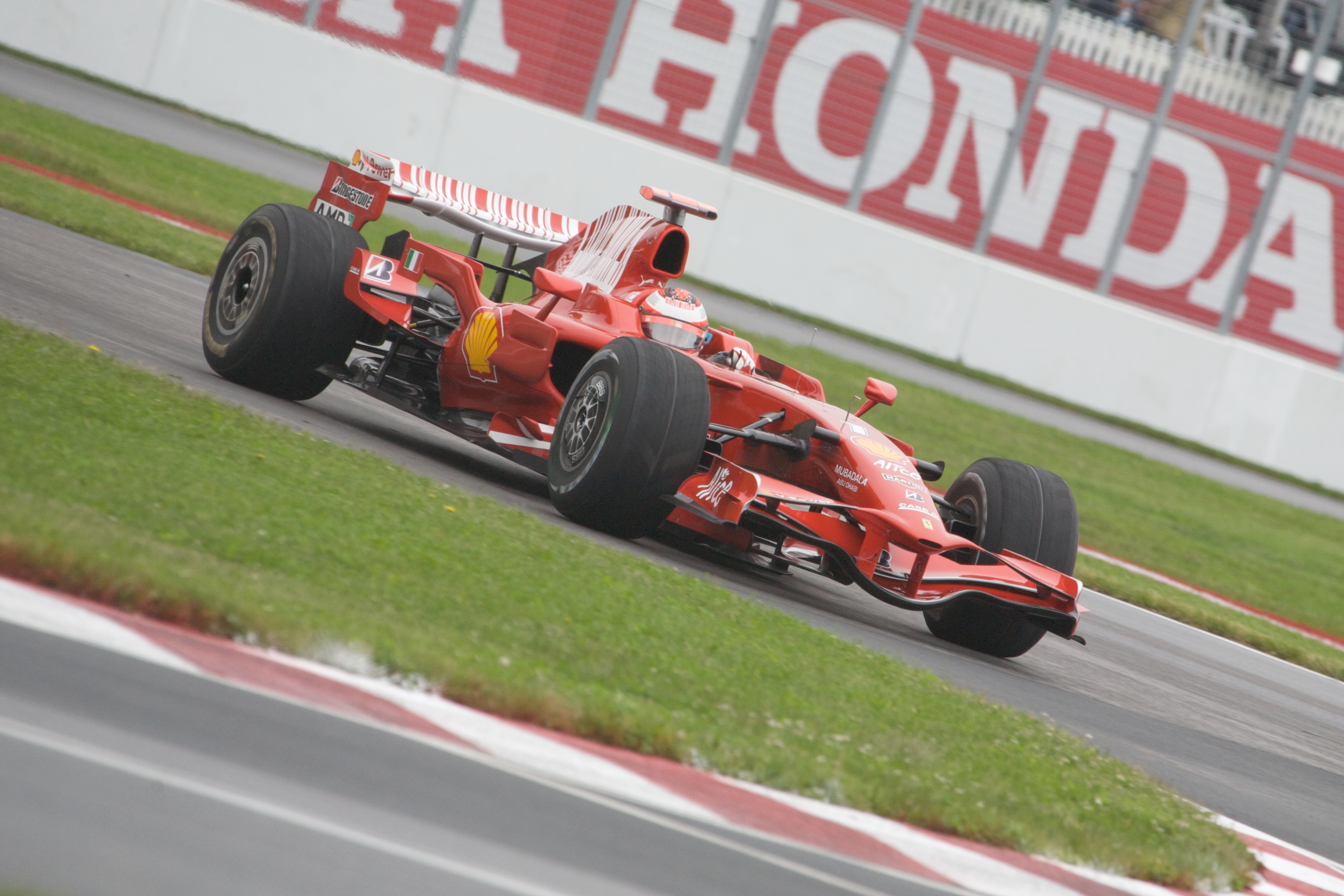 Kimi Räikkönen driving for Scuderia Ferrari at the 2008 Canadian Grand Prix.